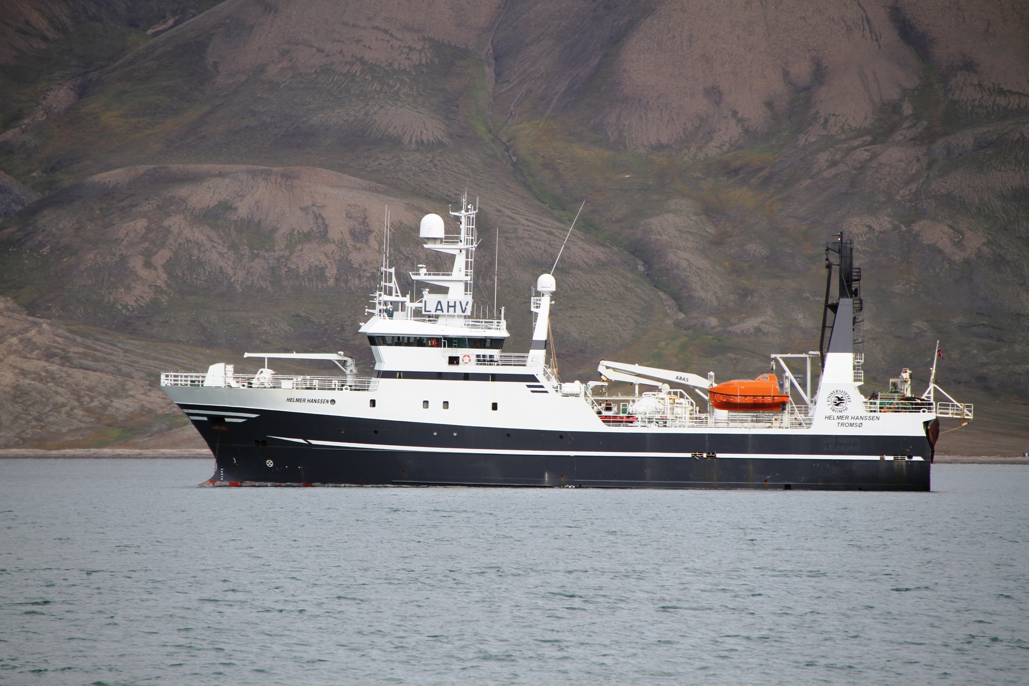 R/V Helmer Hanssen, a research vessel of the University of Tromsø. Operated by Troms Offshore (Norway). Here in Adventfjorden.